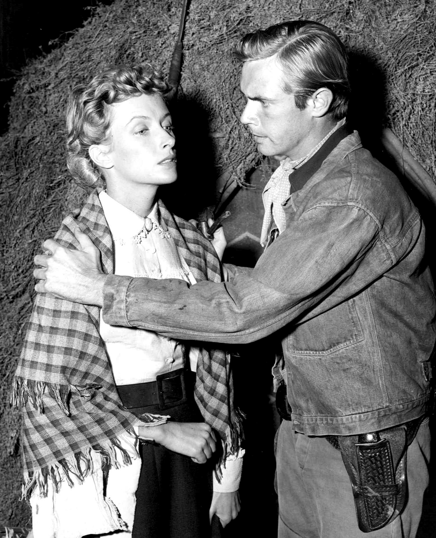 Photo of Joan Camden and John Lupton from an episode of the television Western Broken Arrow.